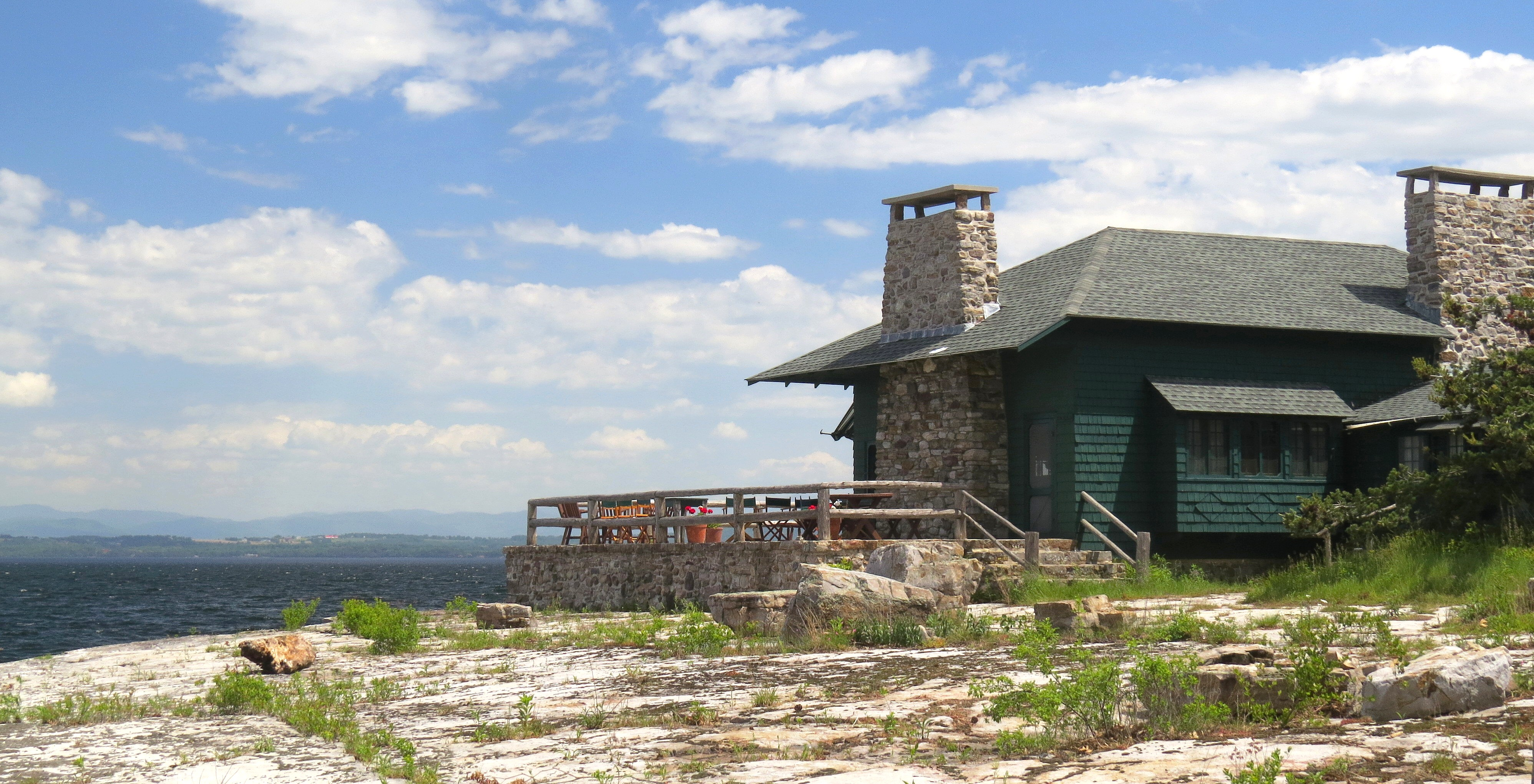 Flat Rock Camp, Willsboro, New York. Looking east over Lake Champlain. Taken during a tour by Adirondack Architectural Heritage.